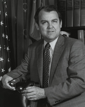 Norman D. Shumway, US Representative from California